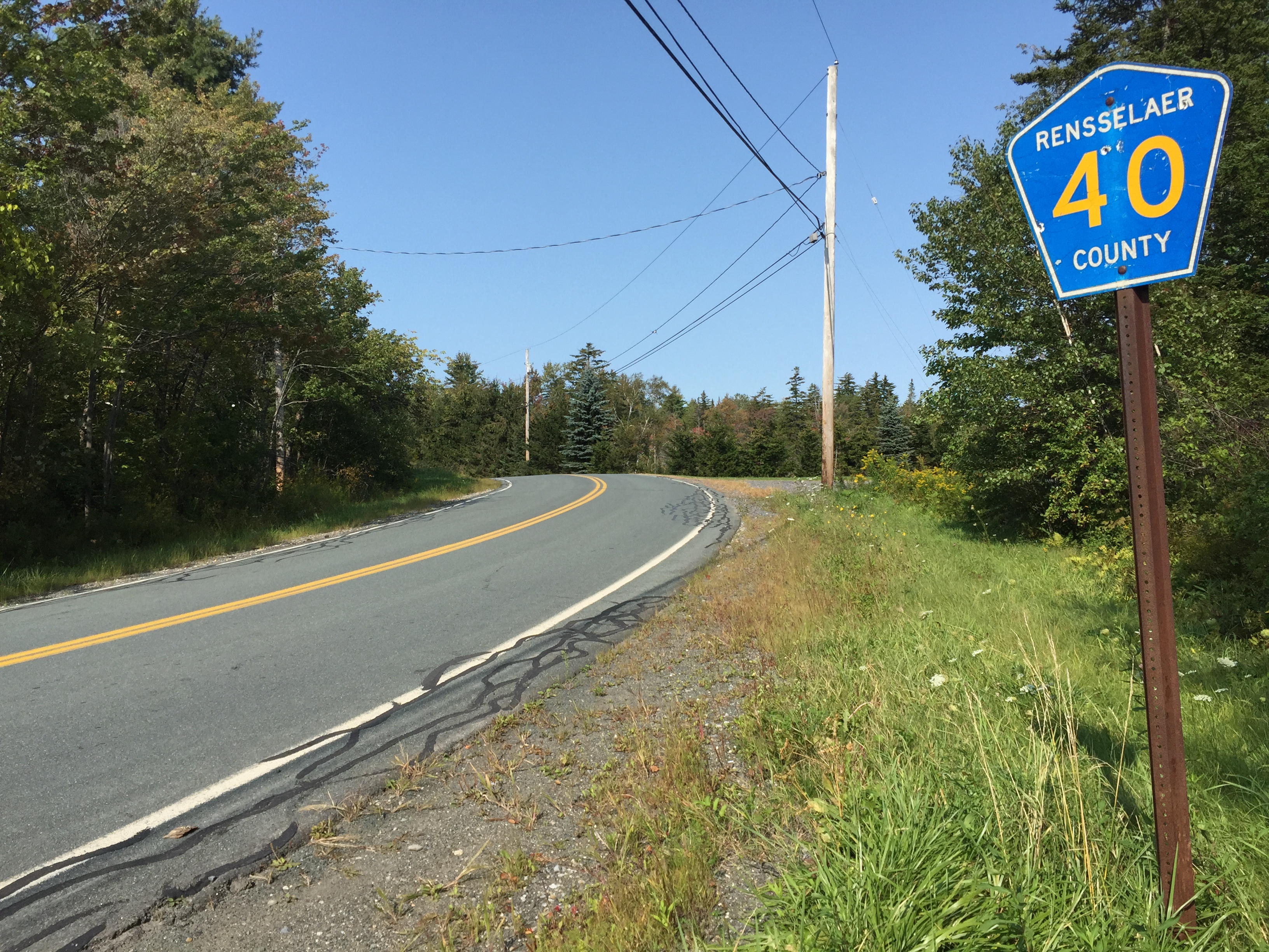 View east along Plank Road (Rensselaer County Route 40) at Dutch Church Road (Rensselaer County Route 41) in the Bucks Corner section of Berlin, Rensselaer County, New York